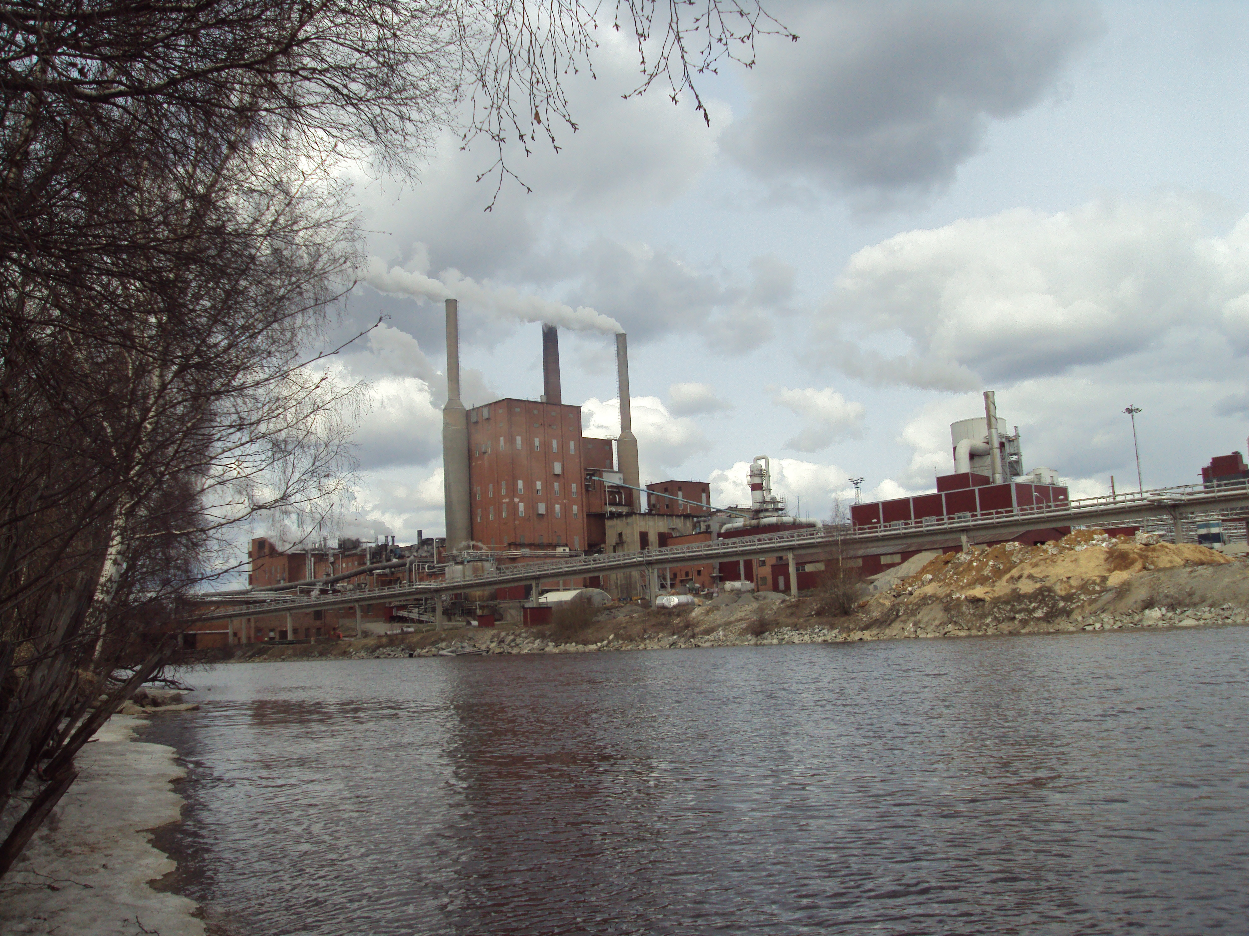 The domsjö factory, located in Domsjö, örnsköldsvik, Ångermanland, Sweden.